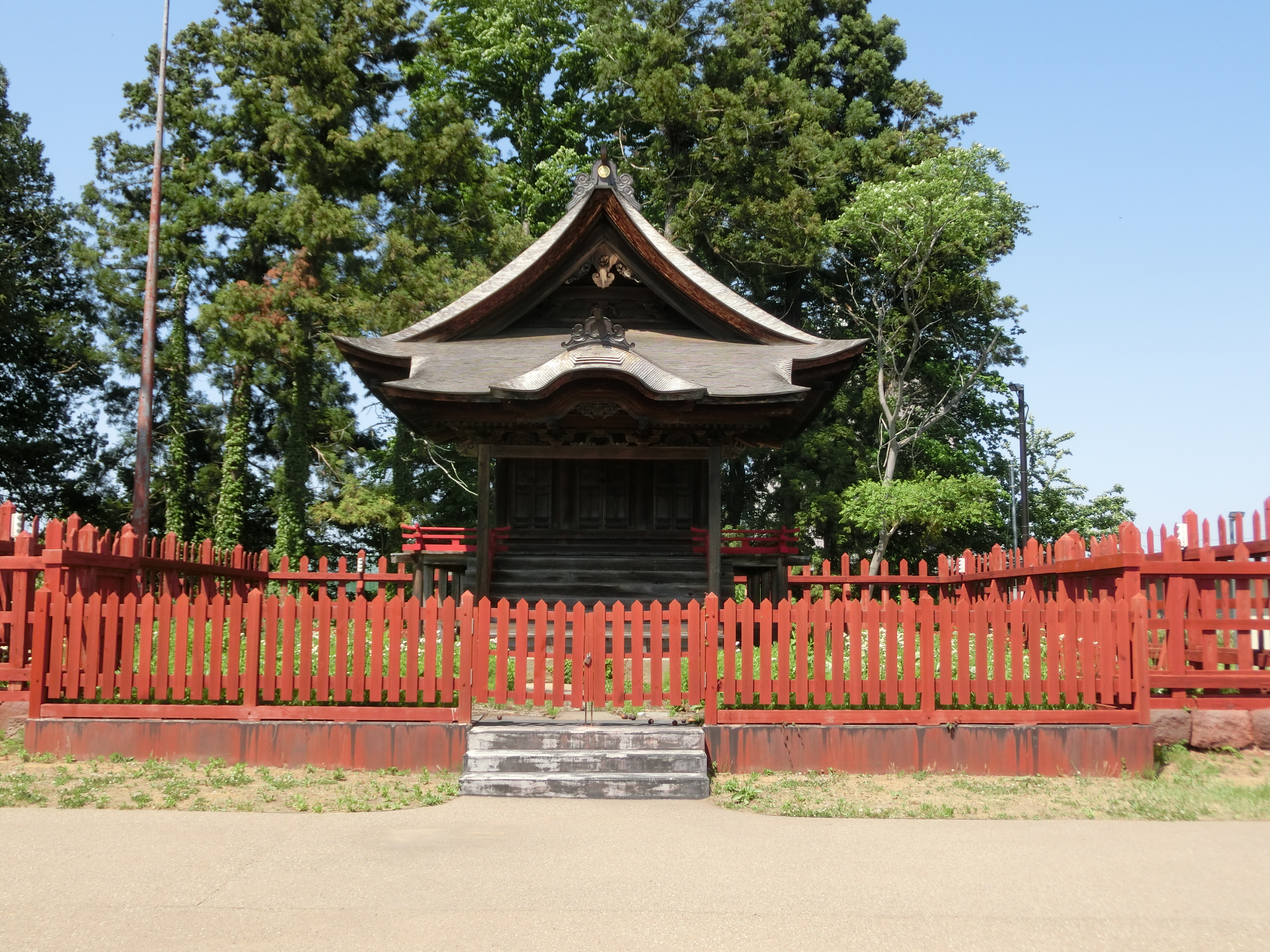 Hirosaki Tosho-gu